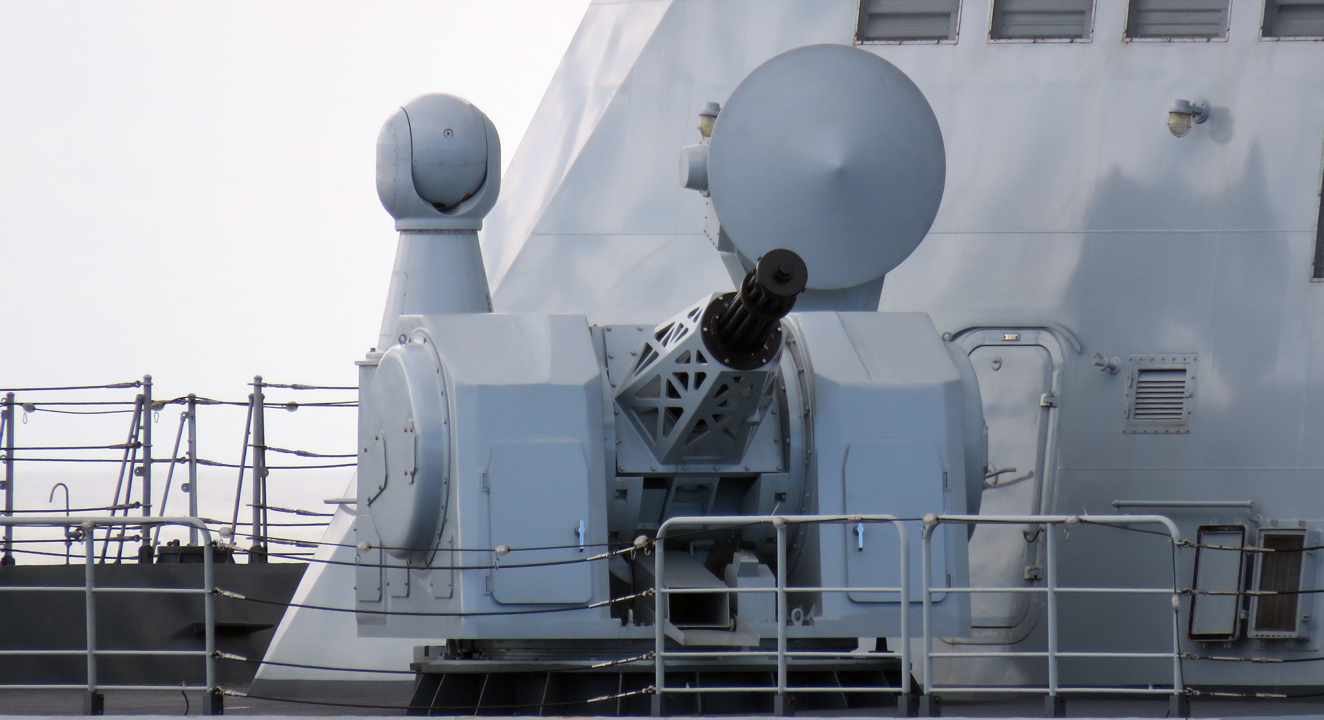 Front view of the Type 1130 Close In Weapons (CIWS) of the Wuhu (539), a Type 054A Frigate of the People's Liberation Army Navy (PLAN). Photo taken at the Manila South Harbor.